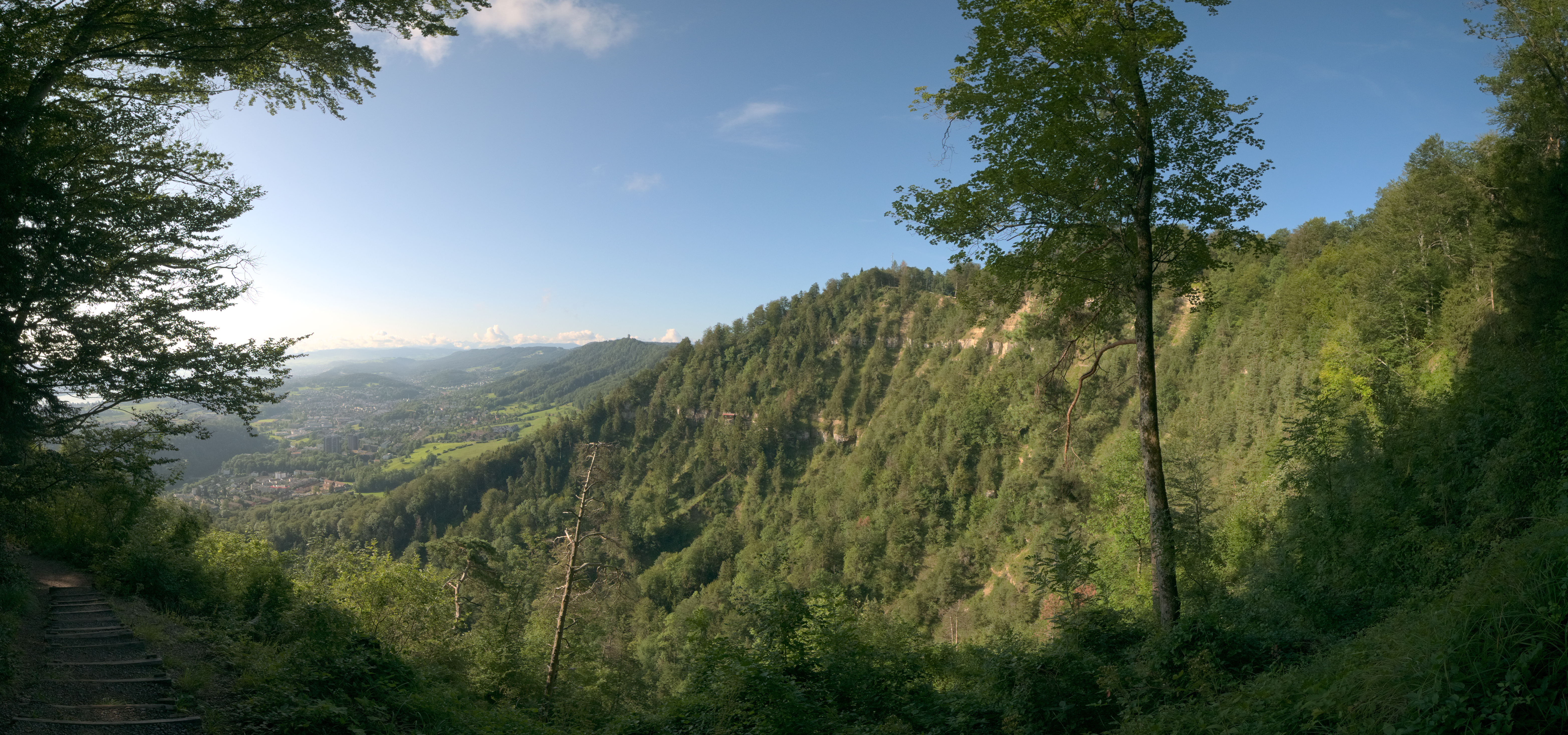 Stitched panorama of the southern part of the Fallätsche with Glecksteinhütte and the Sihl valley in the background. This is as seen from the path leading to the "Teehüsli".